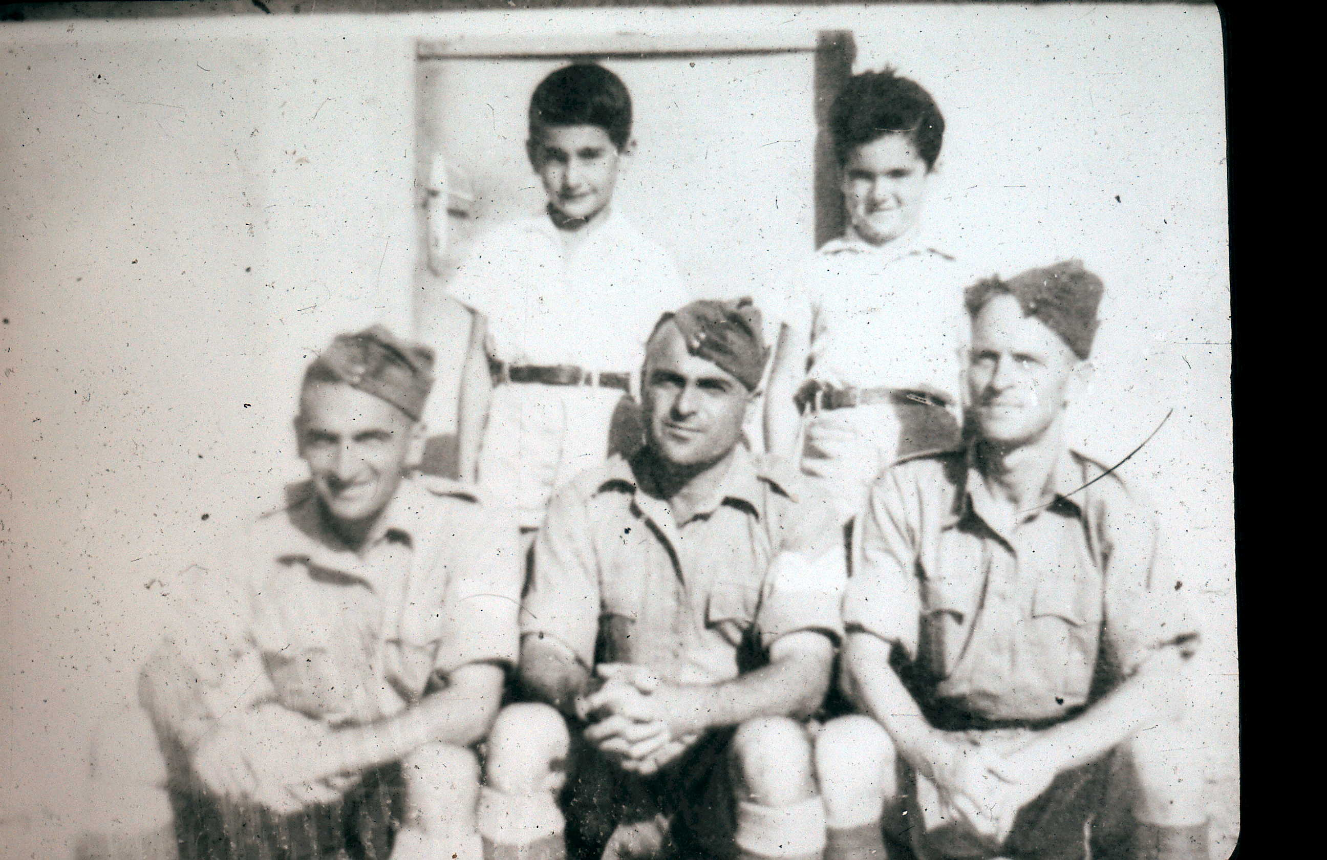 Members of the kibutz as British Soldiers , Israel Defense Forces